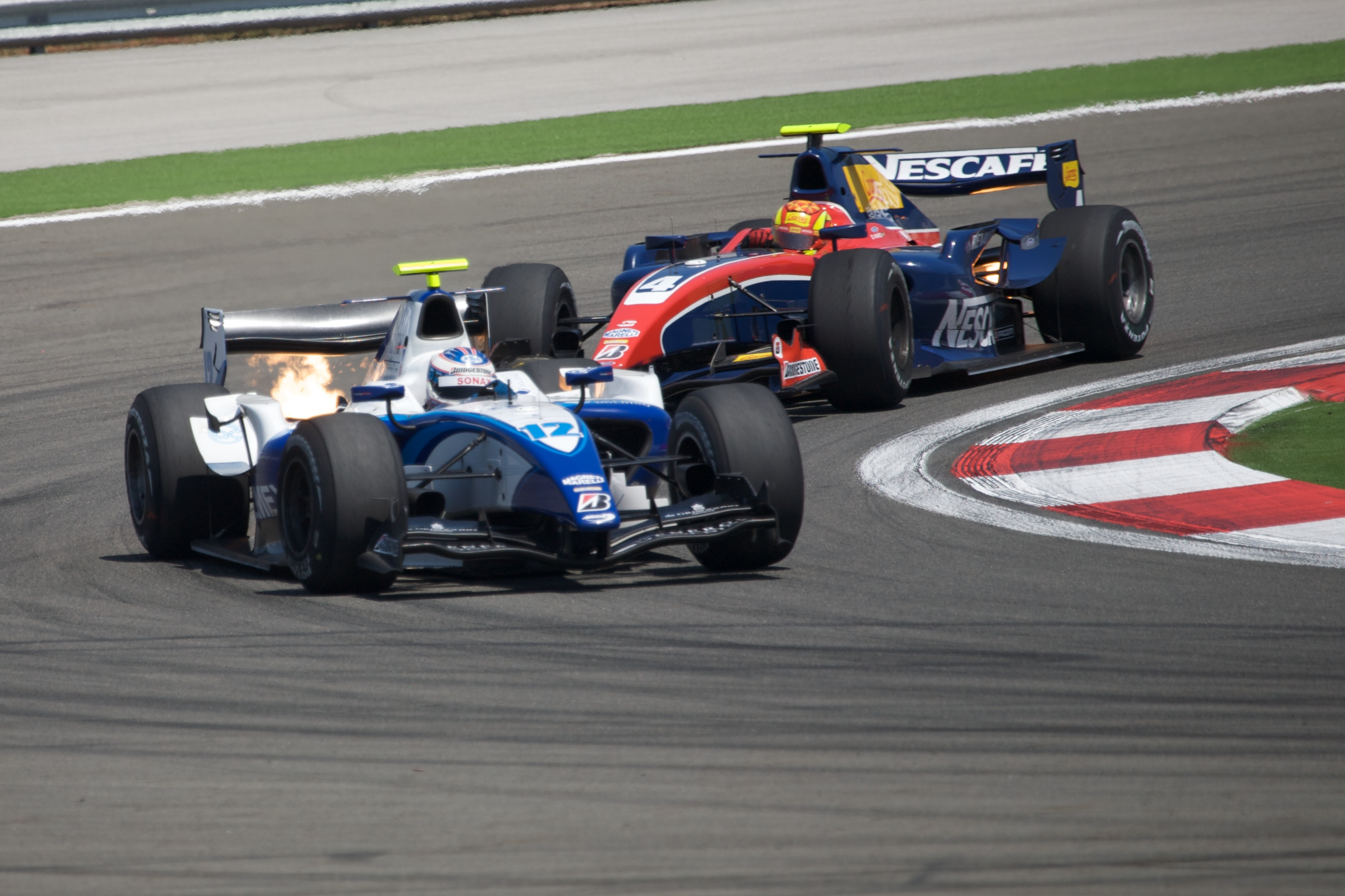 Edoardo Mortara (Arden International) leads Diego Nunes (iSport International) at the Turkish round of the 2009 GP2 Series season.